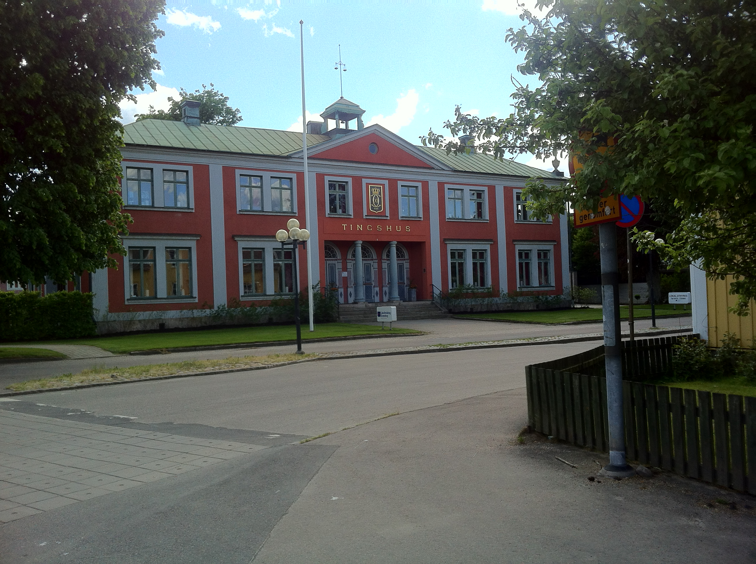 Ljungby's former courthouse. Houses today office space and municipal archives.